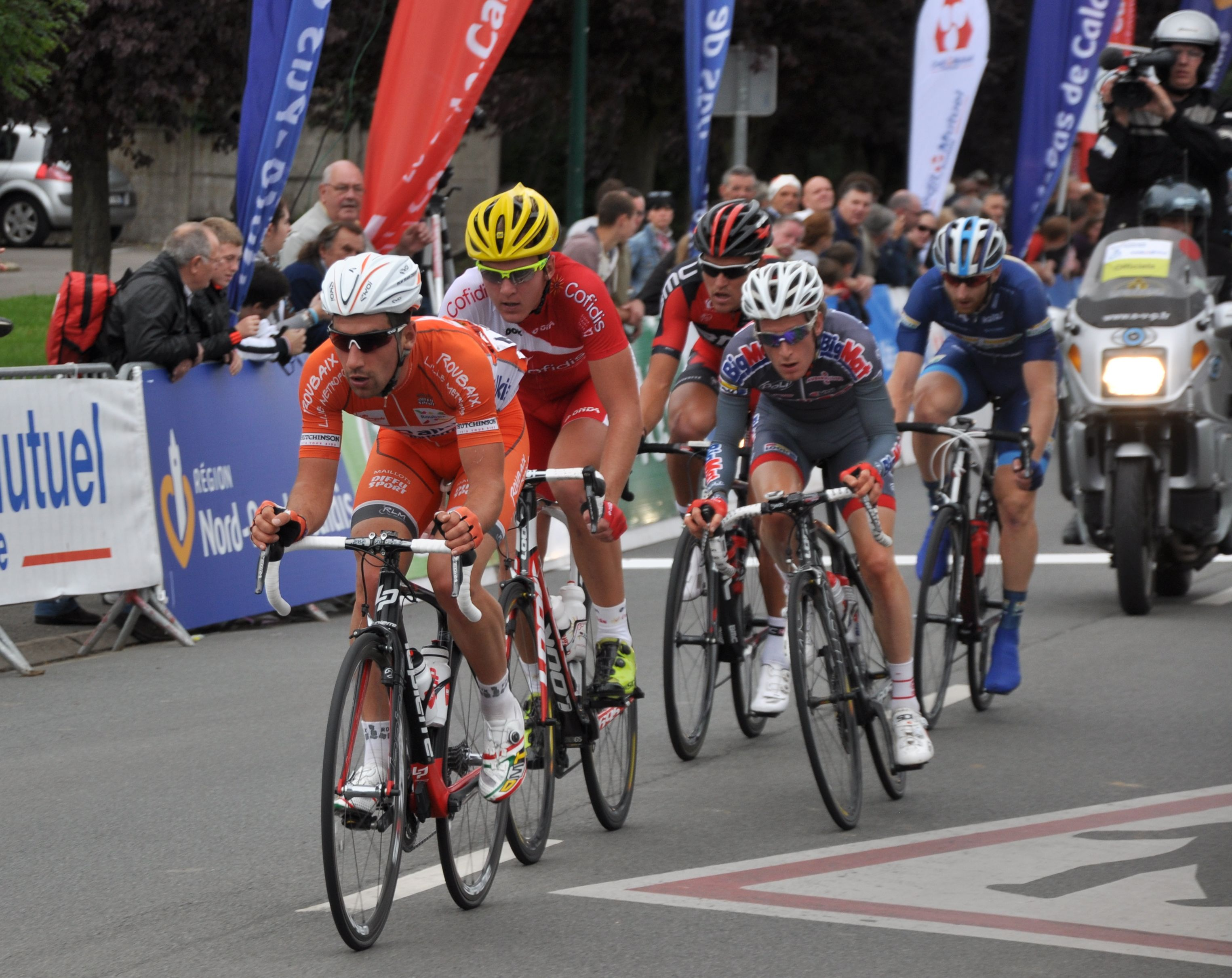 GPI 2013